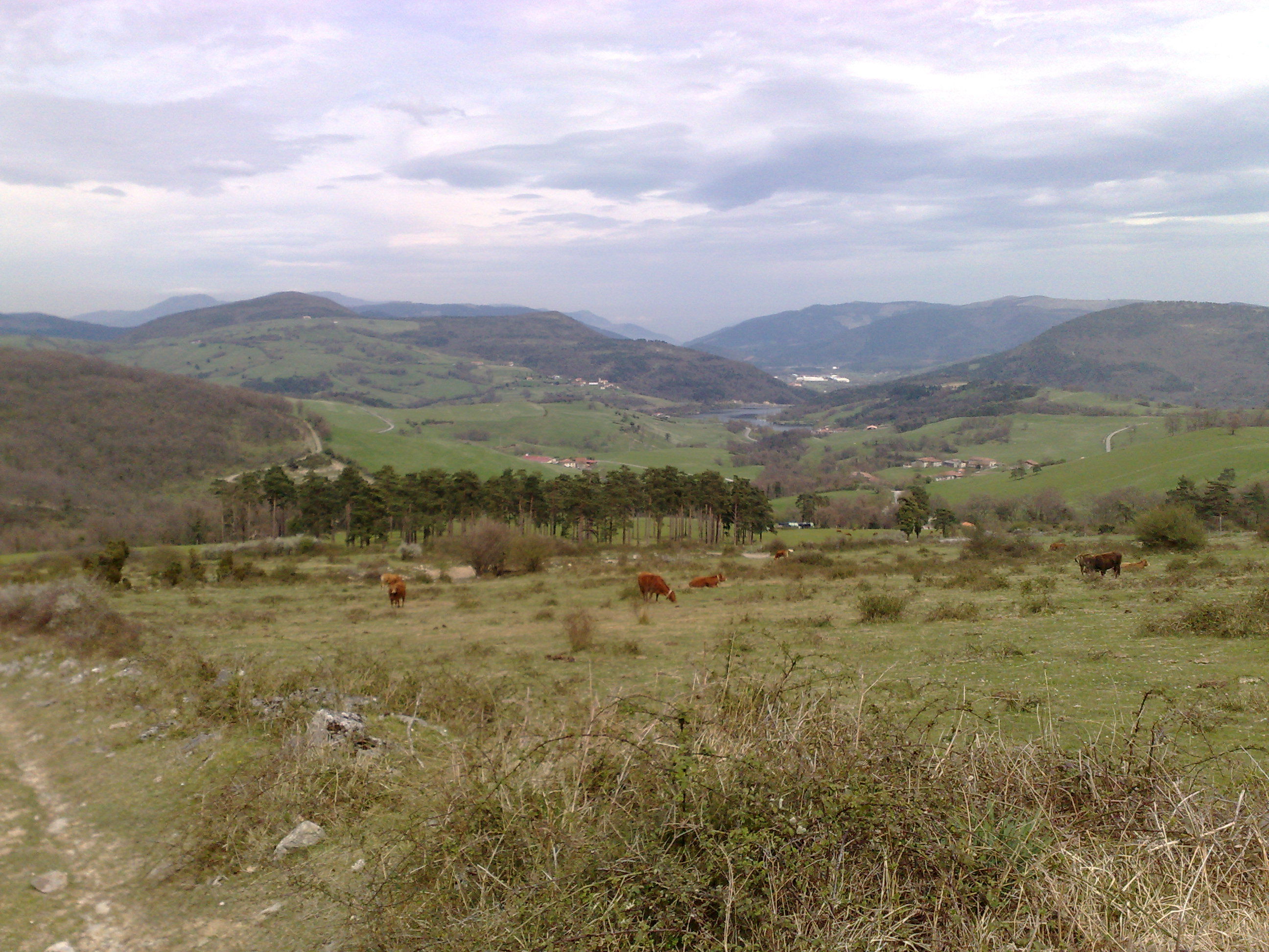 Near Agiñiga coming from Gorobel mountains. Aiara Council, Aiaraldea, Araba province, Basque Country